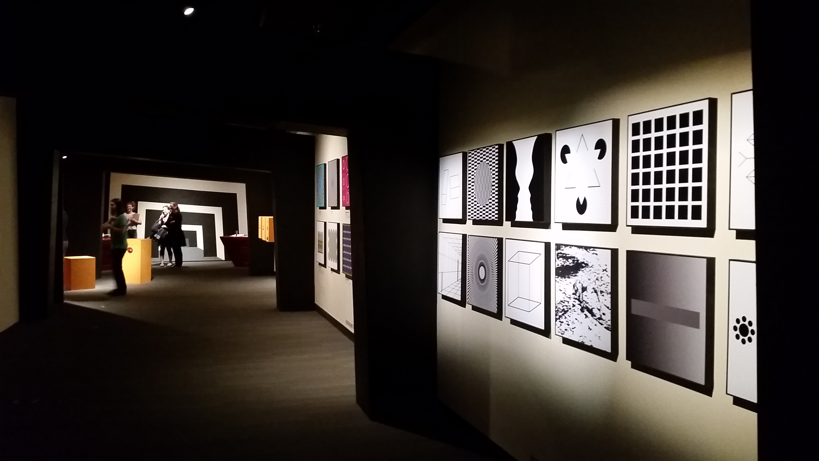 Leo